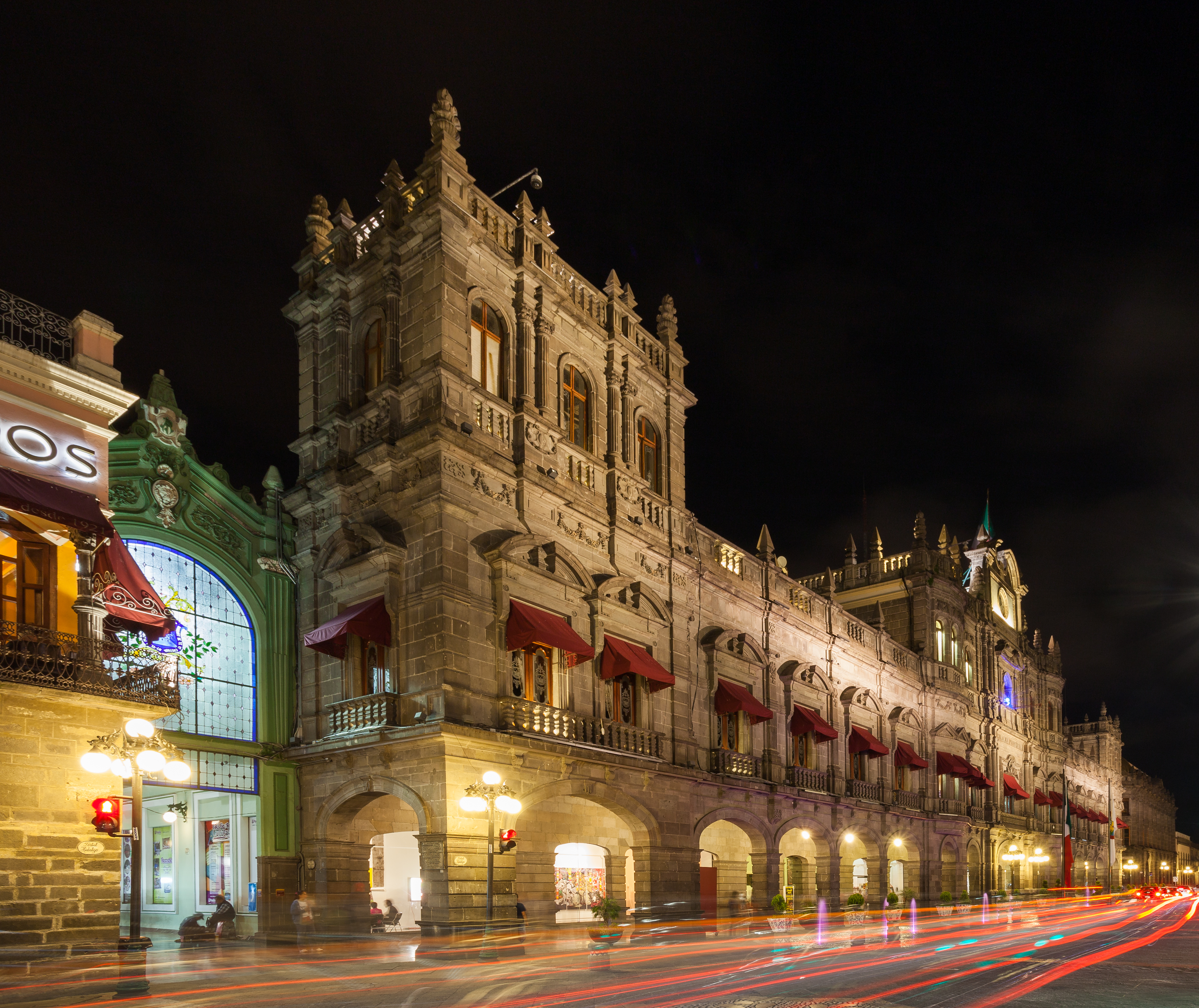 State Government Palace, Puebla, Mexico